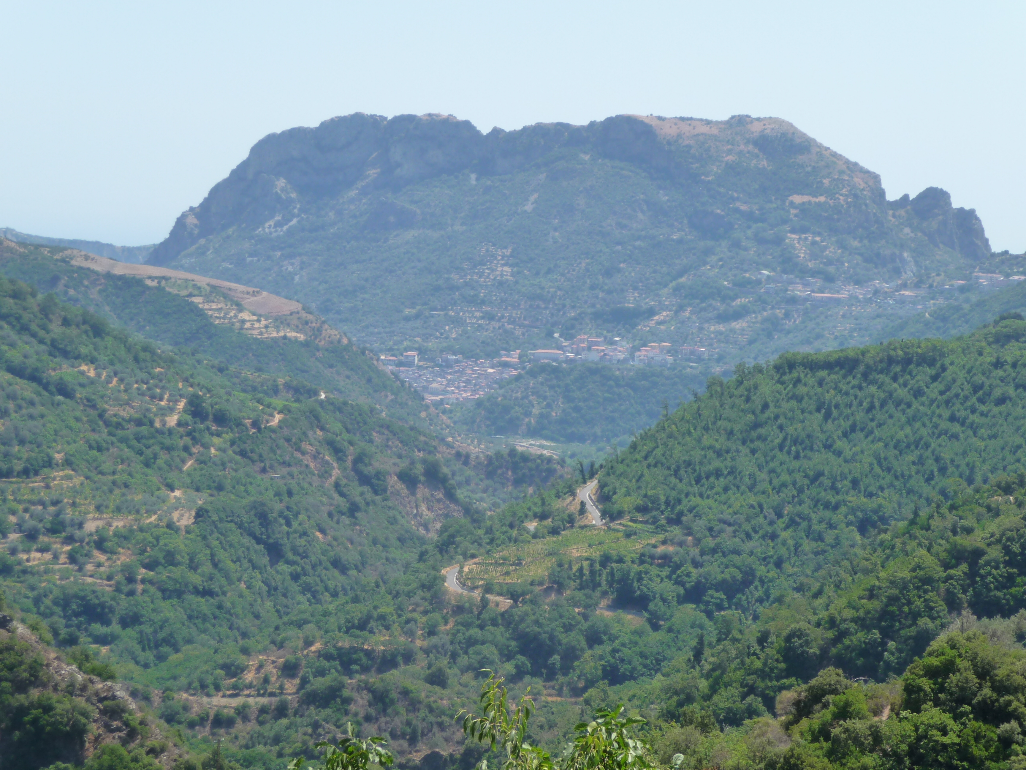 Mountain Mammicomito (Calabria)